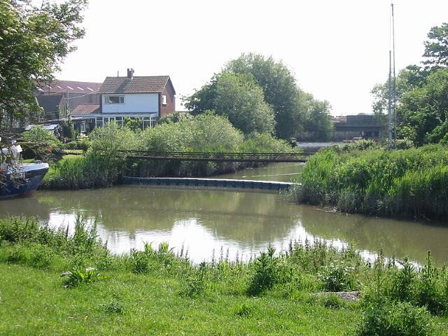 Stonar Cut and the A256 crossing Opened in 1776 the Stonar Cut formed a shortcut across the neck of the Sandwich Loop on the River Stour so that floodwater caused by high rainfall or a high spring tide could take the shortest route to the sea without flooding Sandwich. Its sluice gates were renewed in 1999 and for 175 years the gates were manned fulltime.